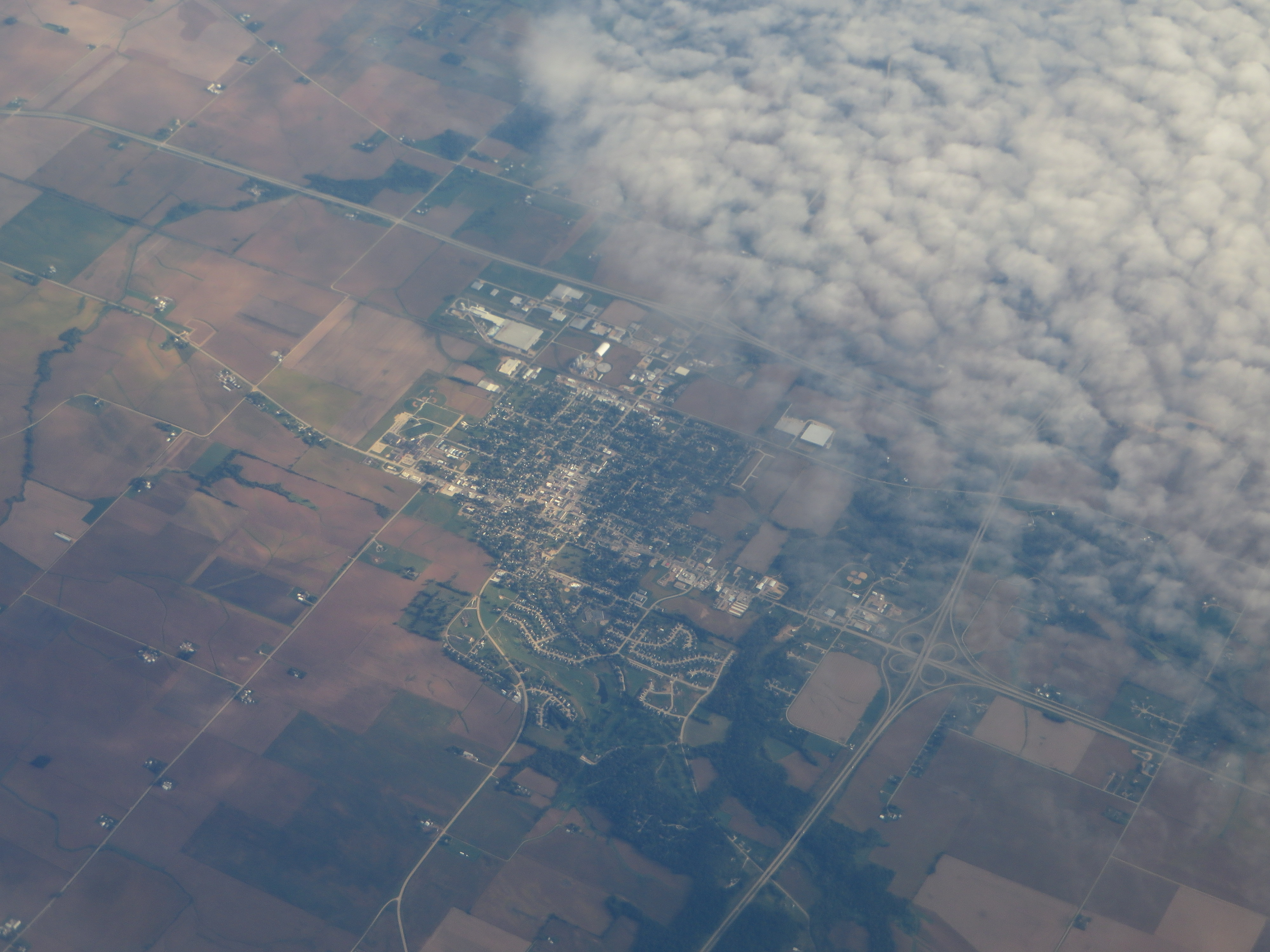 DeWitt is a city in Clinton County, Iowa, United States. The population was 5,322 at the 2010 census, which is a 5.2% increase from the 2000 census, making it the fastest growing city in Clinton County.